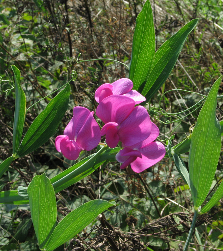 Lathyrus latifolius, seen in the Middle Rhine area in Germany